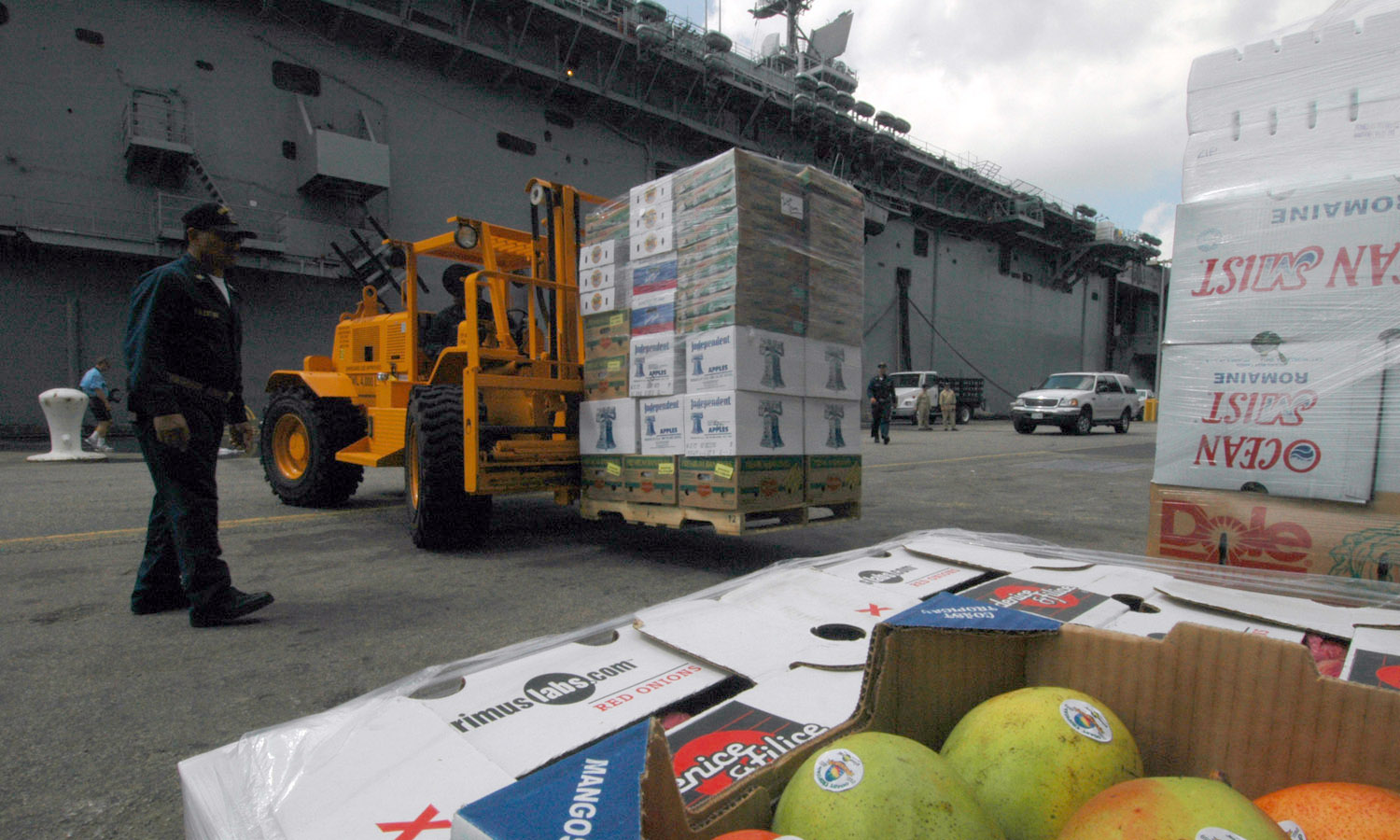 Norfolk, Va. (Aug. 31, 2005) – Master Chief Culinary Specialist Bernardo C. Tolentino directs a forklift during a store on load aboard the amphibious assault ship USS Iwo Jima (LHD 7). Iwo Jima and three other Hampton Roads-based amphibious ships will get underway today to head to areas off the Gulf Coast as part of the Hurricane Katrina relief effort. The four ships bring with them six Disaster Relief Teams (DRTs) that include amphibious construction equipment, medical personnel and associated supplies to assist with the relief effort. The Navy's involvement in the humanitarian assistance operations led by the Federal Emergency Management Agency (FEMA) in conjunction with the Department of Defense. U.S. Navy photo by Photographer's Mate Airman Joshua T. Rodriguez (RELEASED)